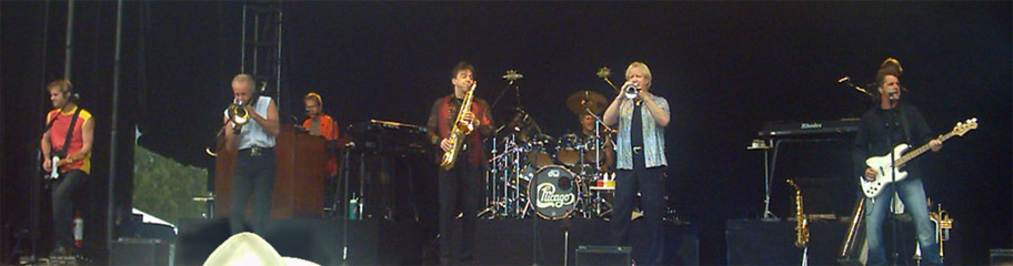 Chicago playing at the Millbrook resort in Queenstown, New Zealand. In the front, from left to right, are Keith Howland, James Pankow, Bill Champlin, Walt Parazaider, Tris Imboden, Lee Loughnane, Robert Lamm (view blocked) and Jason Scheff.